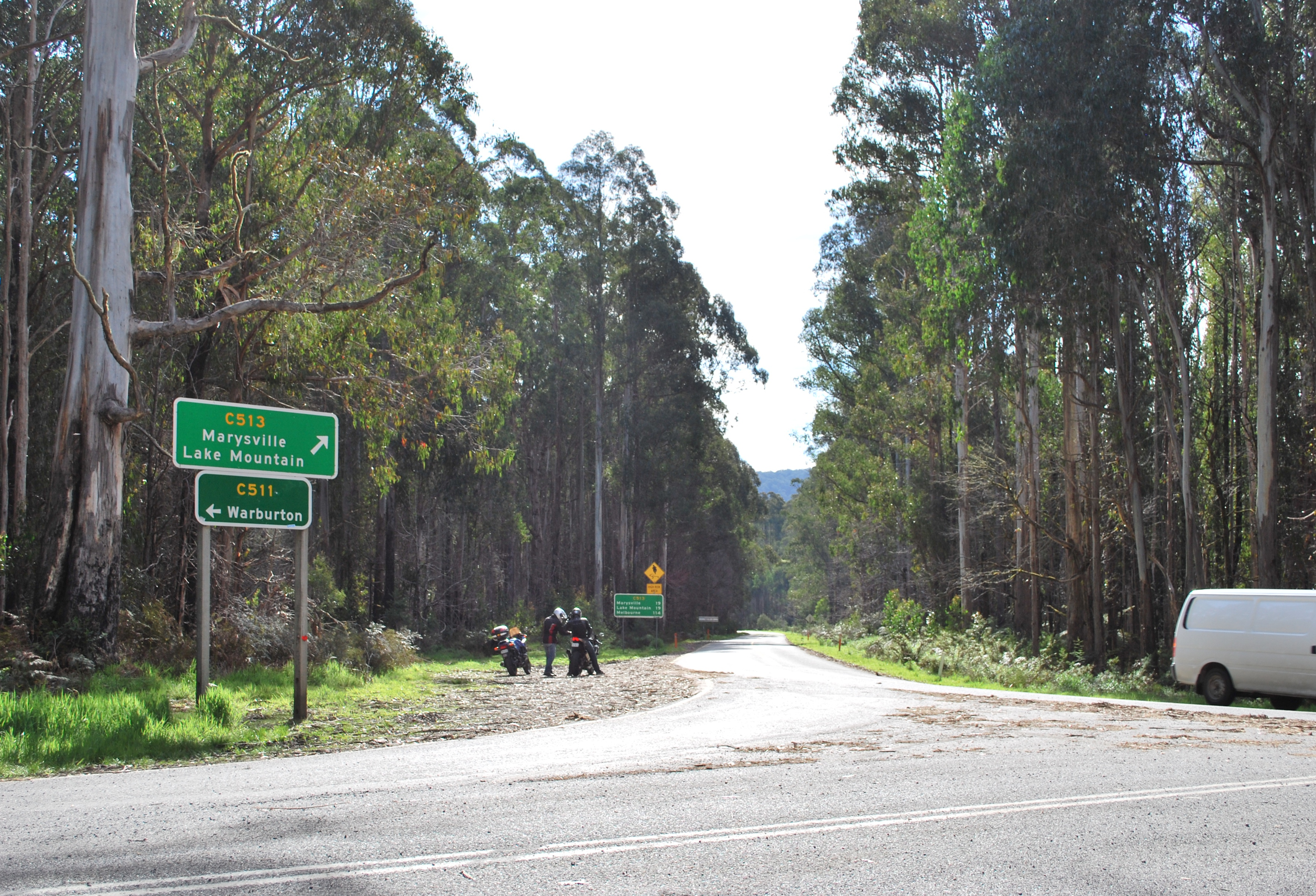 Cumberland Junction on the top of the Great Dividing Range. This is the watershed of the Acheron River, a tributary of the Goulburn River and the Yarra River